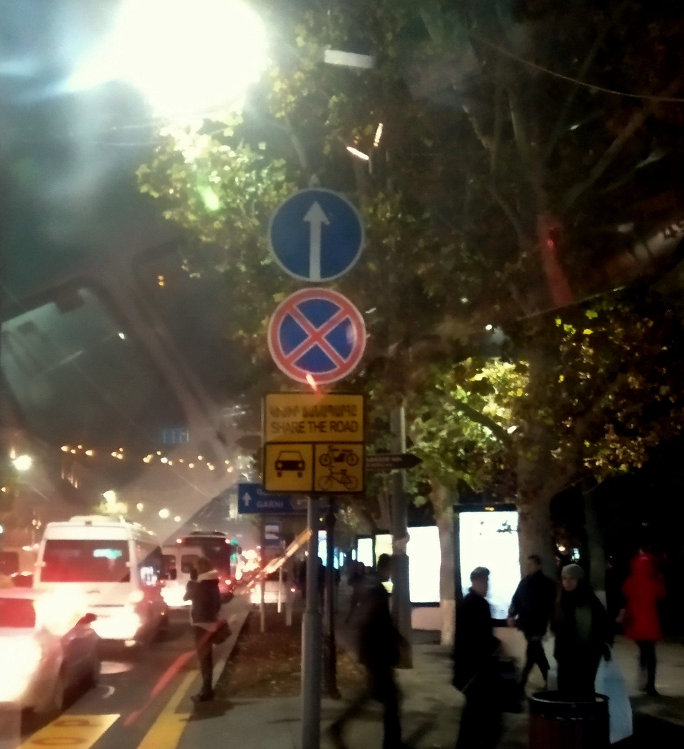 Bicycle street sign Mashtots Avenue Yerevan